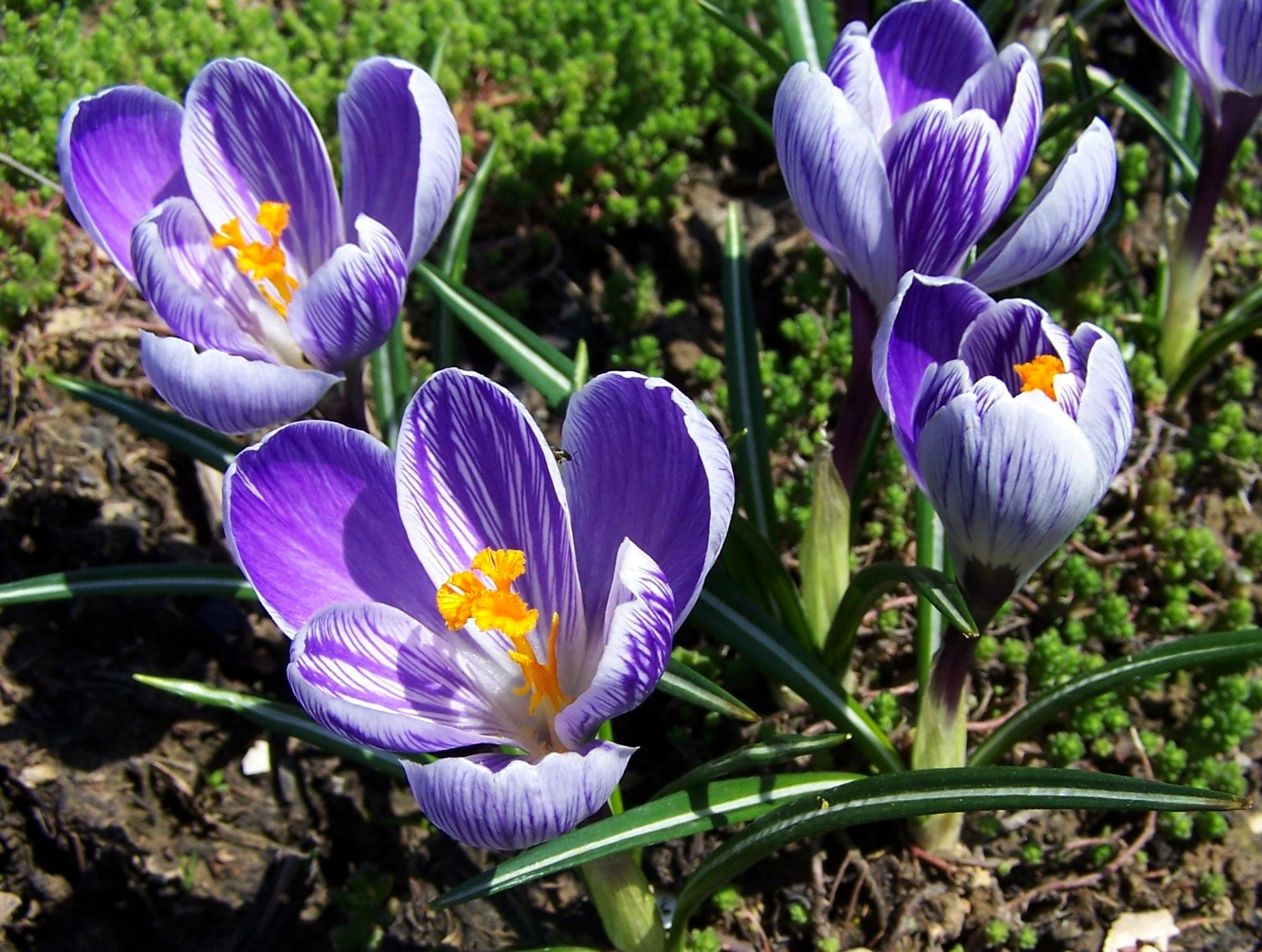 Crocus vernus hort.